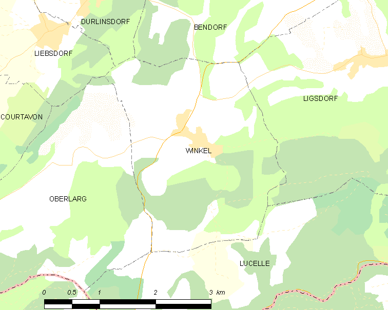 Map of French municipality